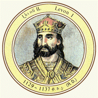 Levon I